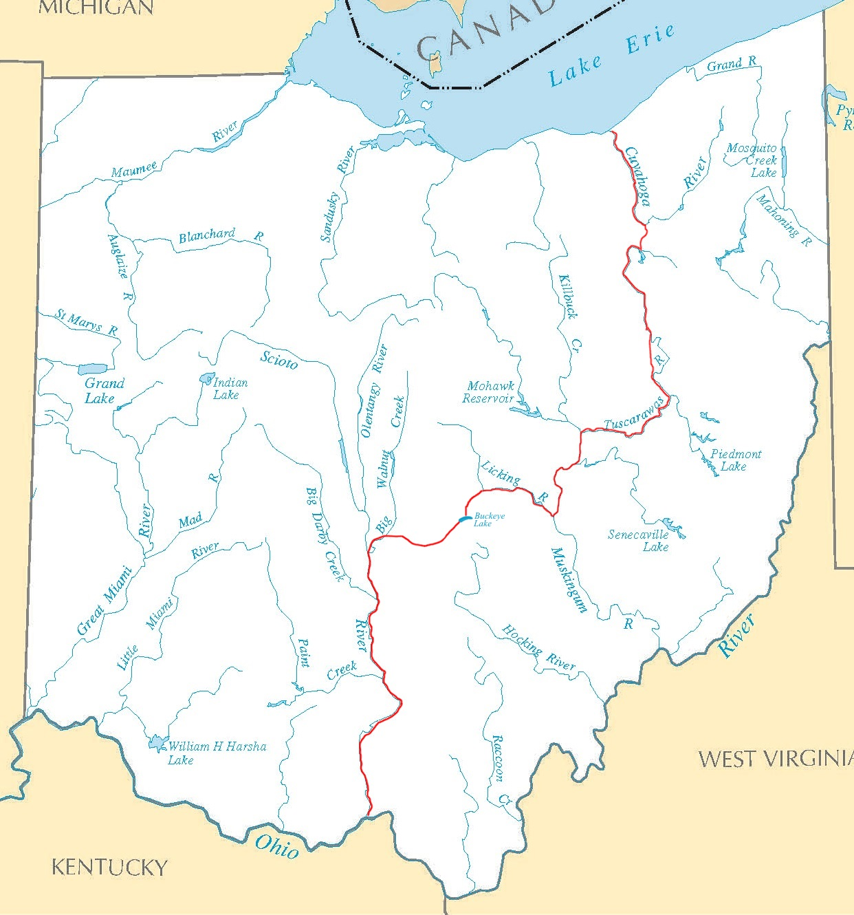 Map of the Ohio and Erie Canal in Ohio in the United States.